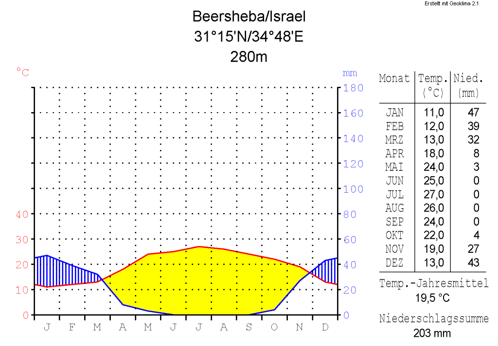 climate chart in the format by Walter and Lieth, metric, °Celsisus and millimeters, made with Geoklima 2.1